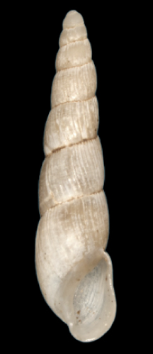 Photo of an apertural view of the shell of Streptostele musaecola. The height of the shell is 8.71 mm.